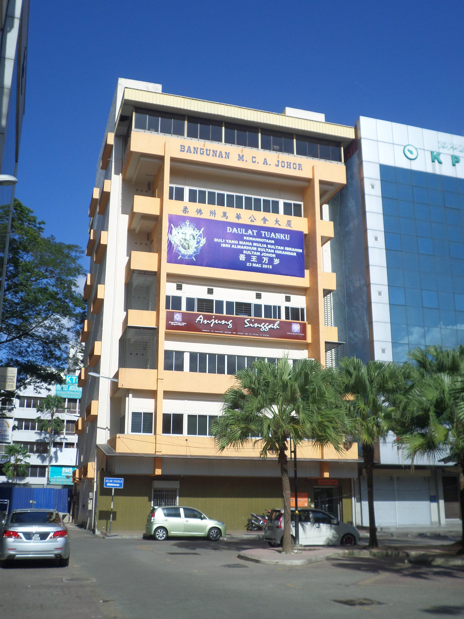 Malaysian Chinese Association, Johor Bahru, Johor, Malaysia